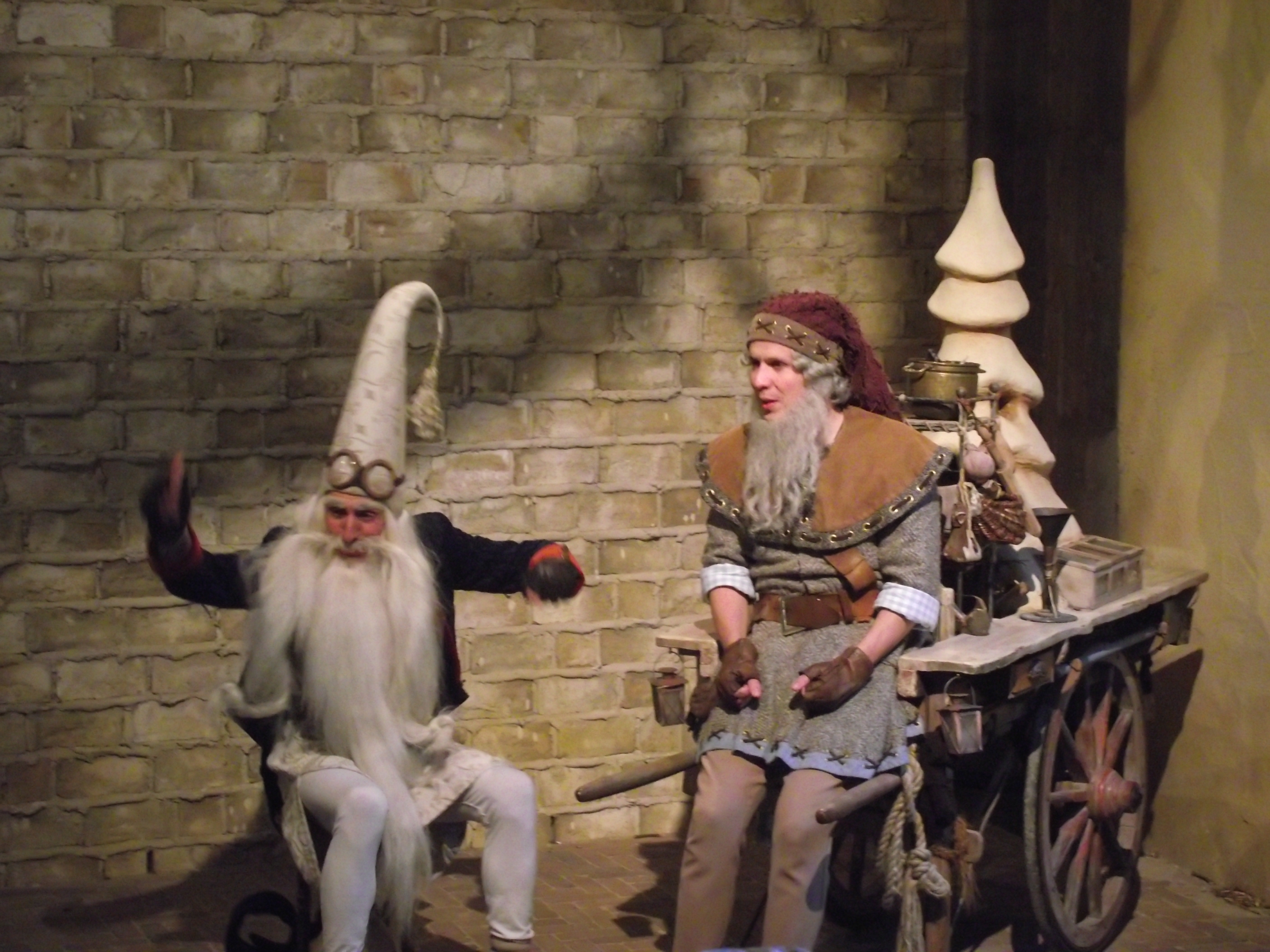 Sandman at Bosrijk Efteling